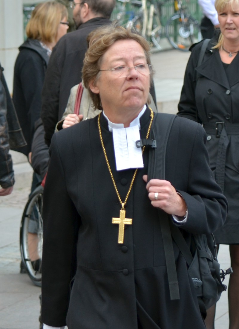 Eva Brunne, bishop of diocese of Stockholm.